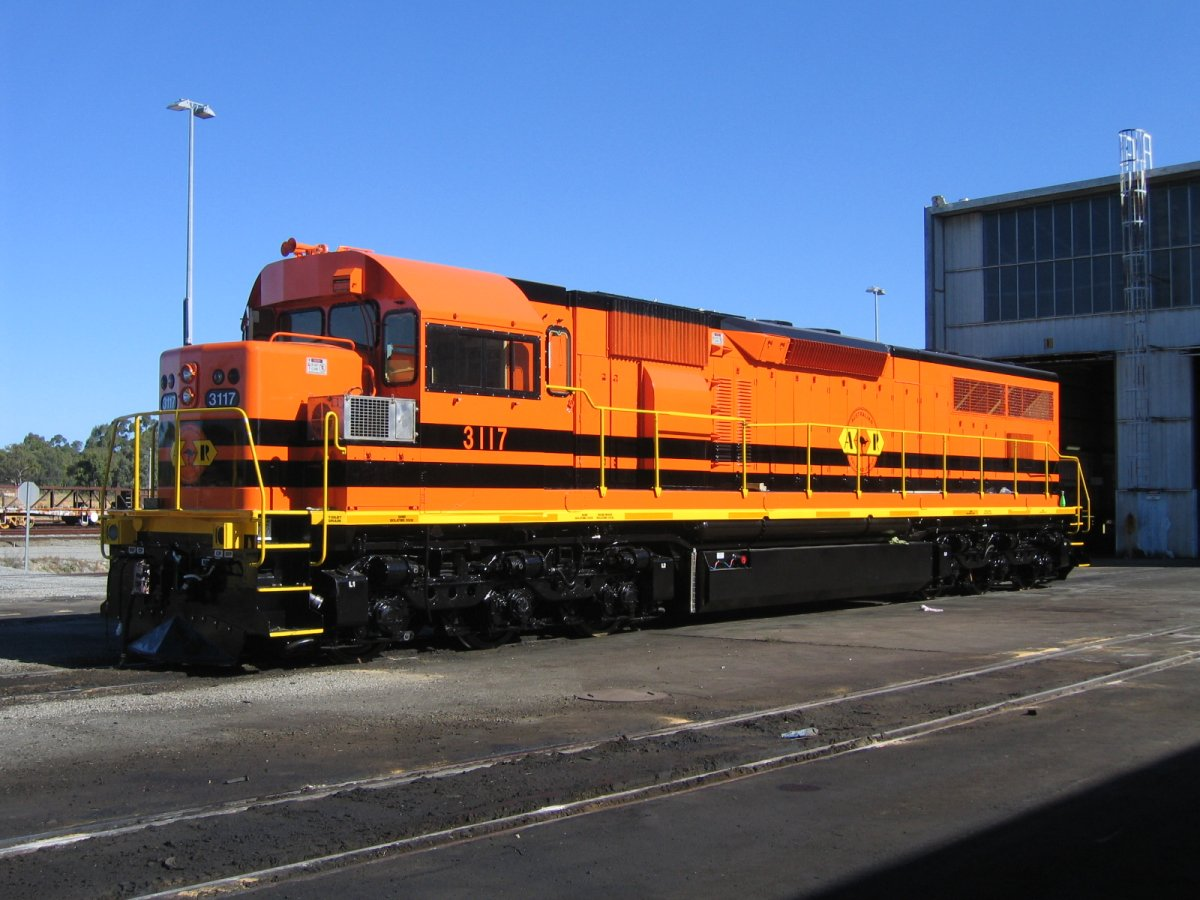 Ex-WAGR L class diesel locomotive no. L3117 (in Australian Railroad Group orange livery) at Forrestfield Yard, Western Australia.